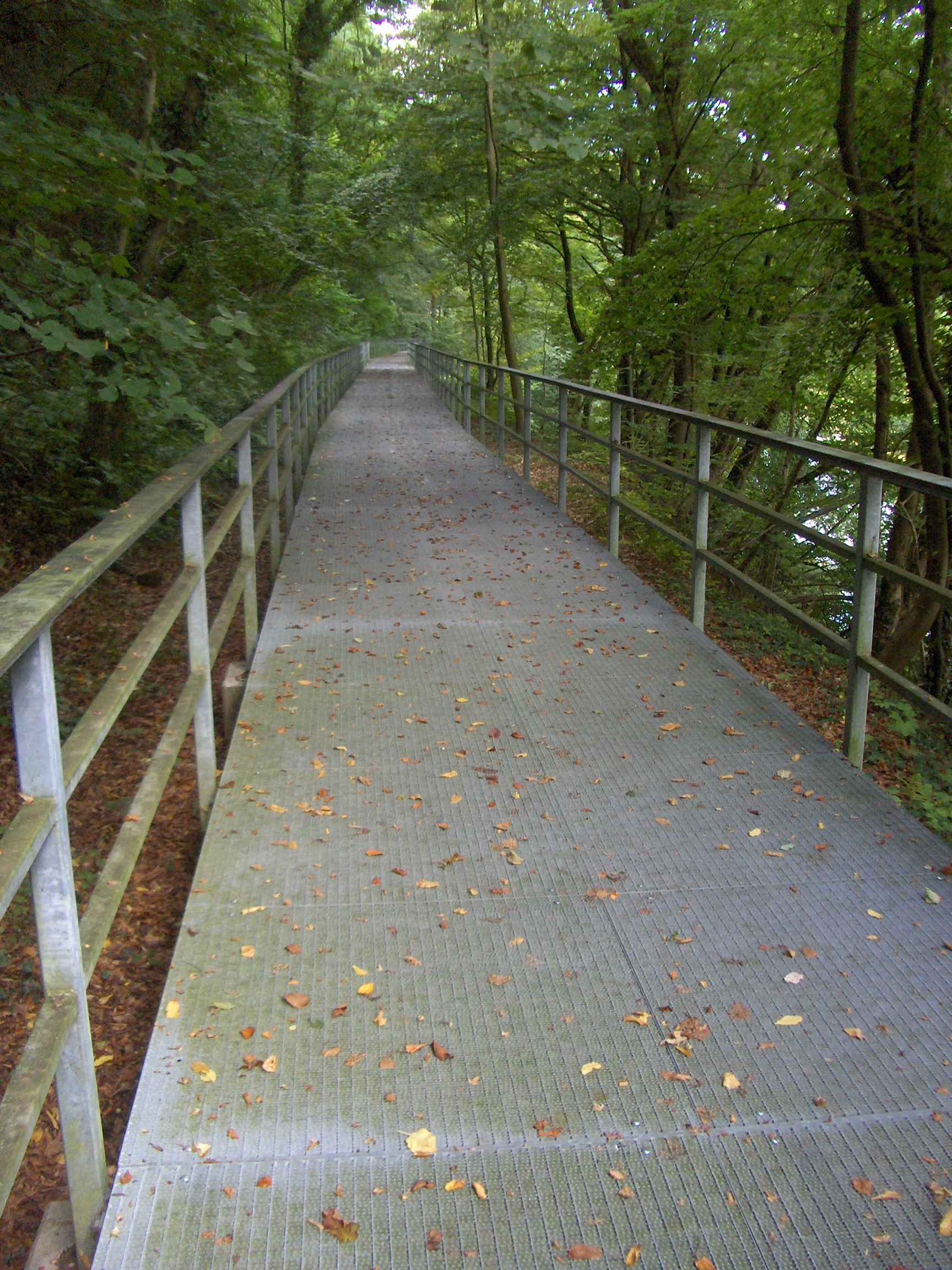 The Sauertalradweg near Wintersdorf, Germany, wich follows the former Nims-Sauertal railroad. The railroad was dismanteled in 1968, today it is part of the Sauertal bikeway.